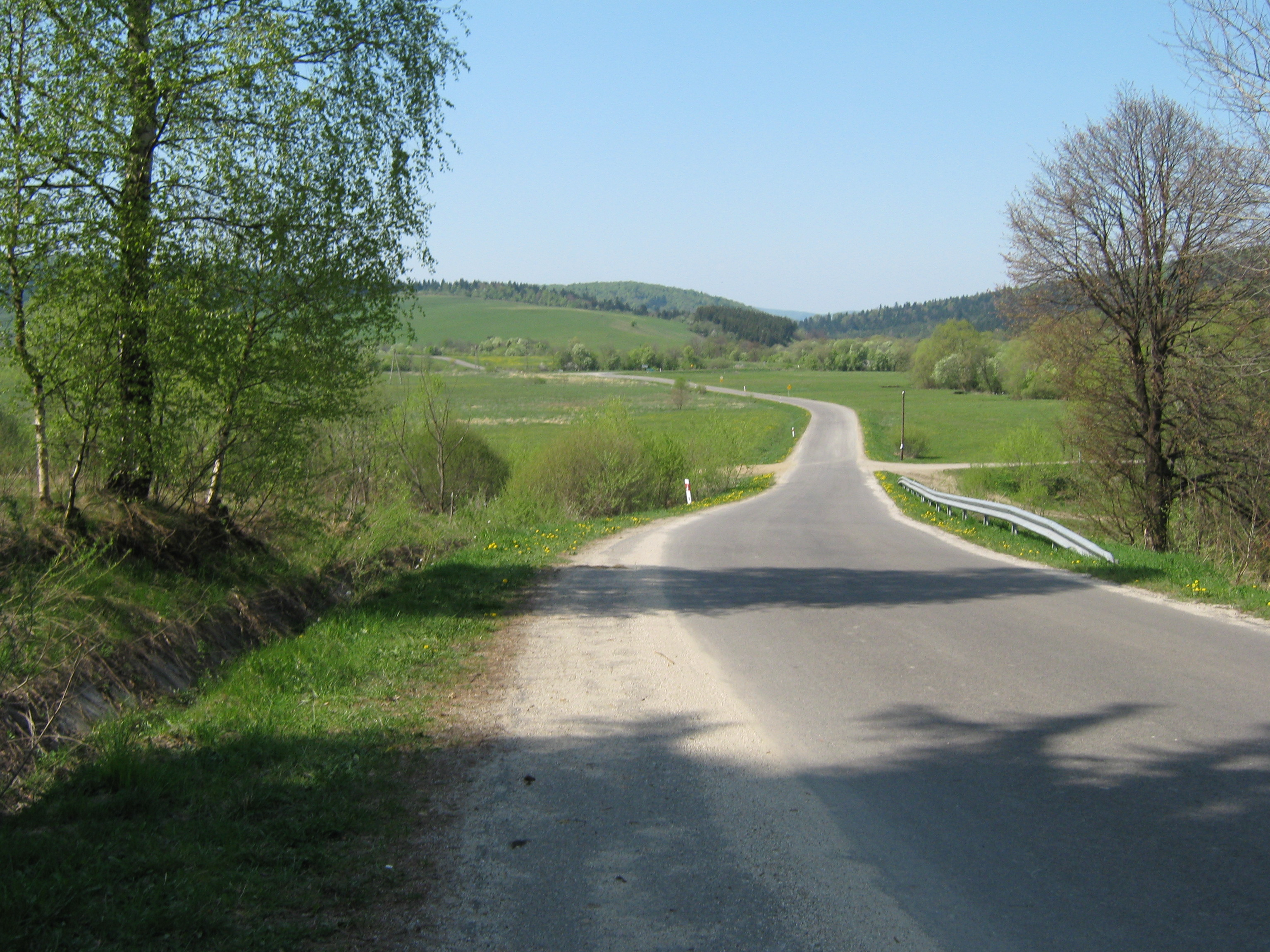 Regional road 992 in Grab.